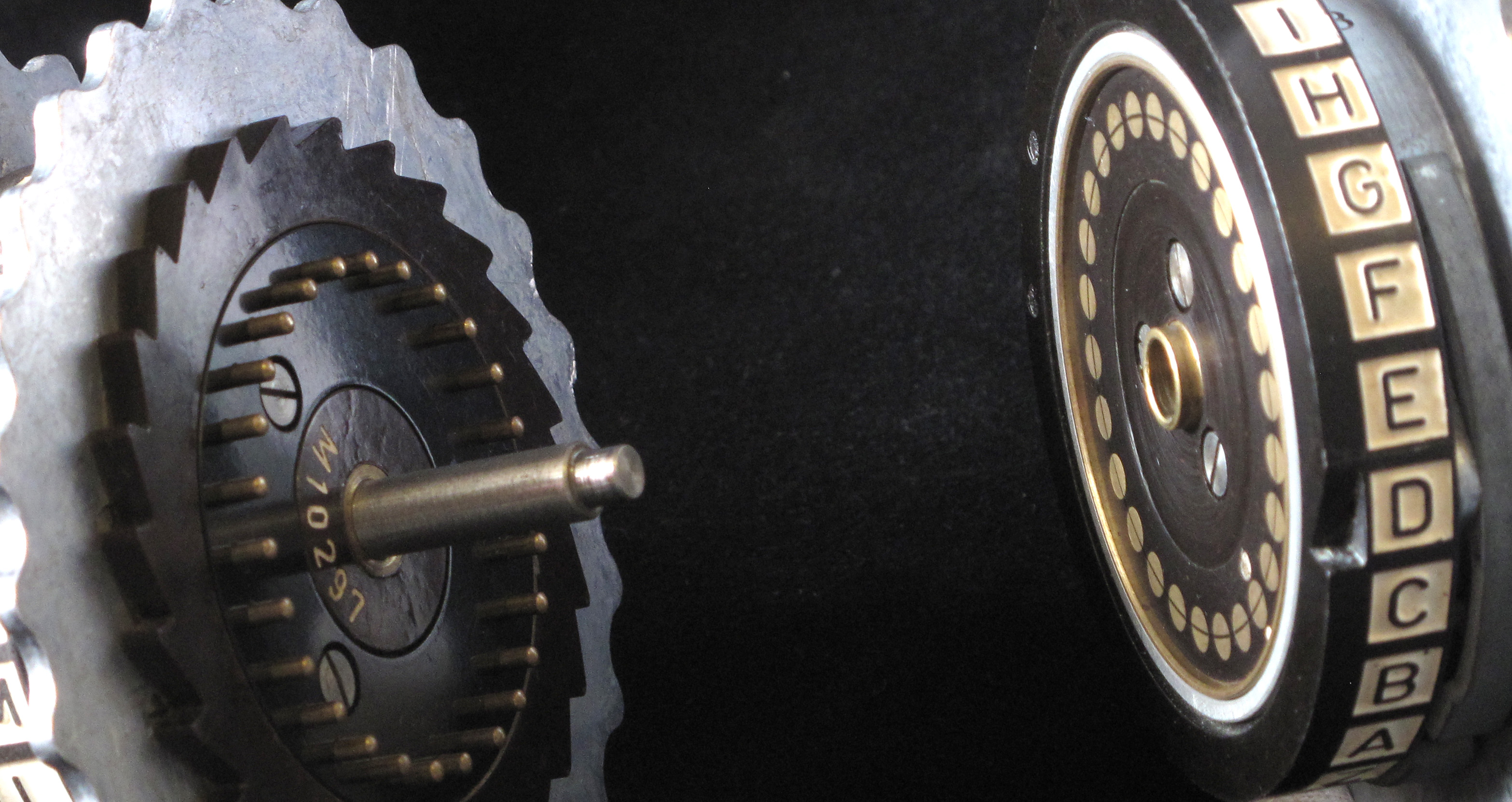 Two Enigma rotors and the spindle on which they are mounted. When the machine is assembled, the spring-loaded studs on the right hand side of rotor (pictured left), make electrical contact with the brass contacts on the left hand side of the rotor (pictured right). The rotor to the left shows the tooth-edged rachet of the stepping mechanism. The notch adjacent to the letter 'D' on the rotor to the right, allows the pawl of the stepping mechanism to fall into place to advance the rotor to its left.